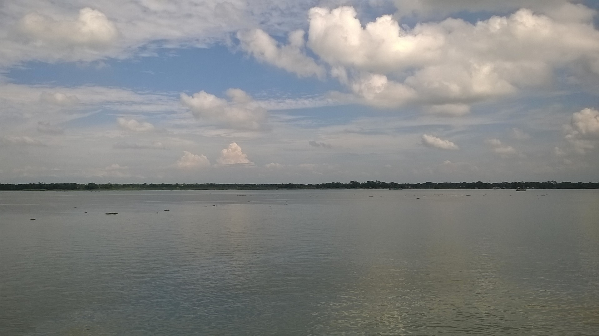 This is from Meghna river